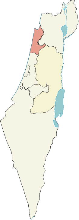 Map of Haifa District, Israel